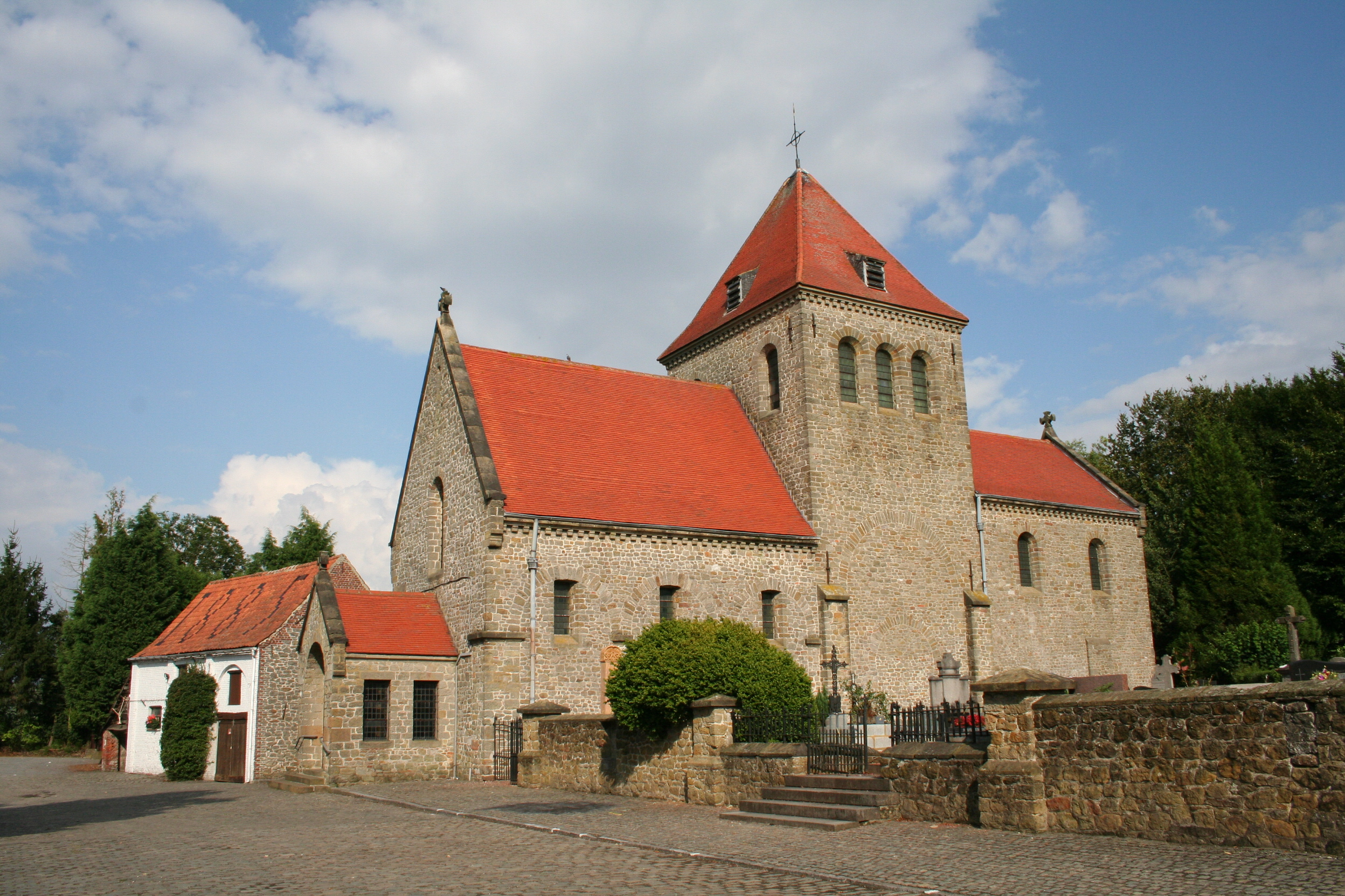 Aubechies (Belgium), the Saint Gaugericus' church (XIth century).